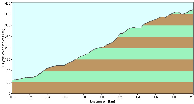 Height profile climbing the mountain Skogfjellet in Brønnøy, Norway.